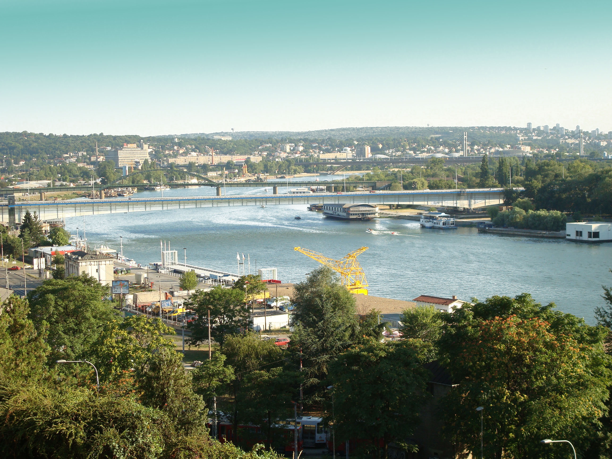 Sava river in Belgrade, view from Kalemegdan fortress.